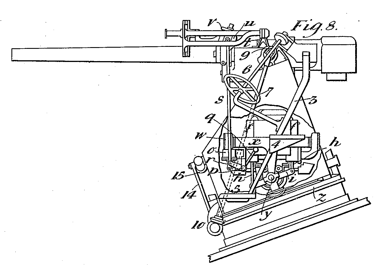 US Patent US 640051 A "Apparatus for steadying guns on shipboard" Figure 8